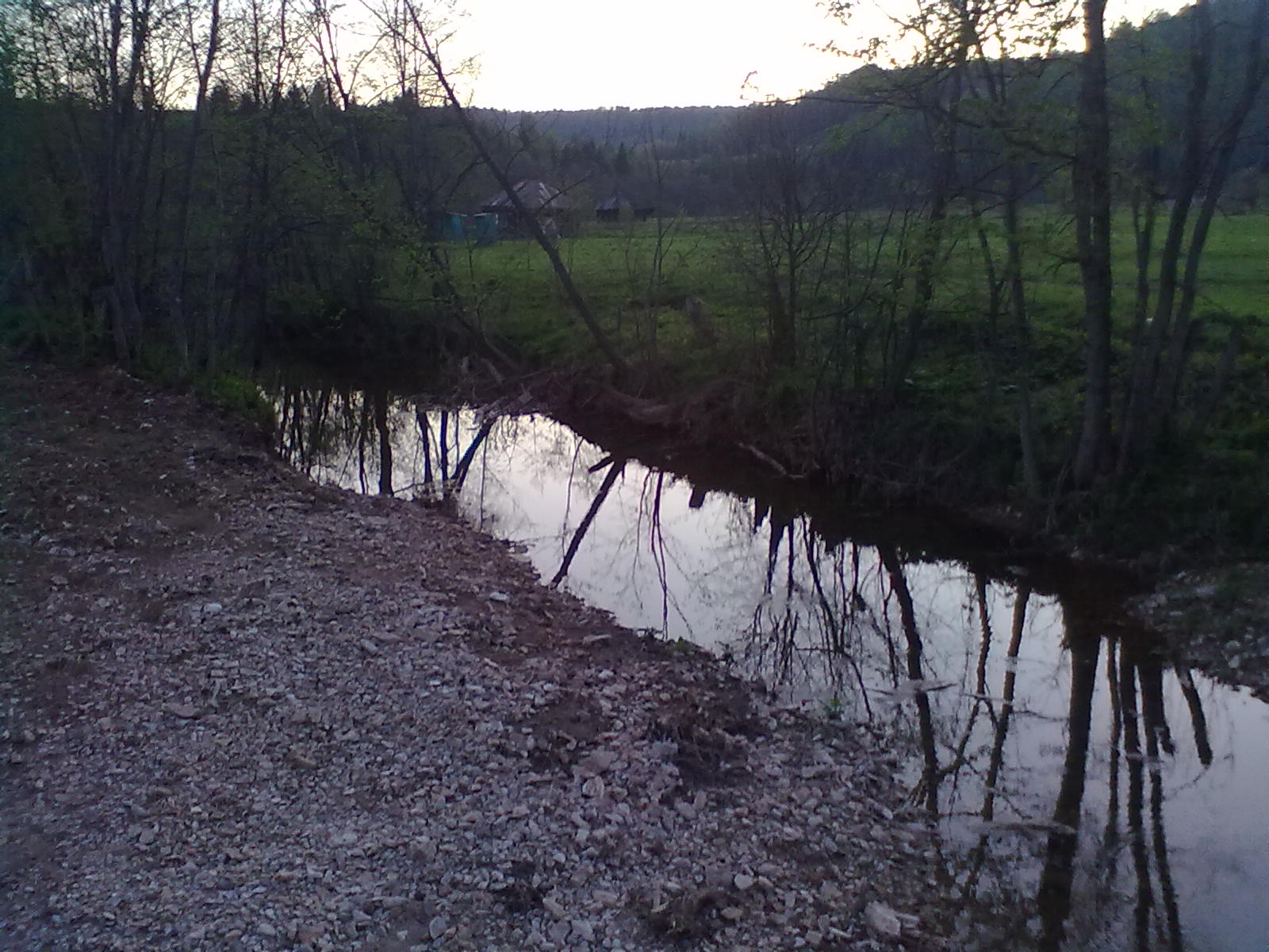 River Yaman-Yelga (tributary R. Ufa) in the village Krasivaia Poliana